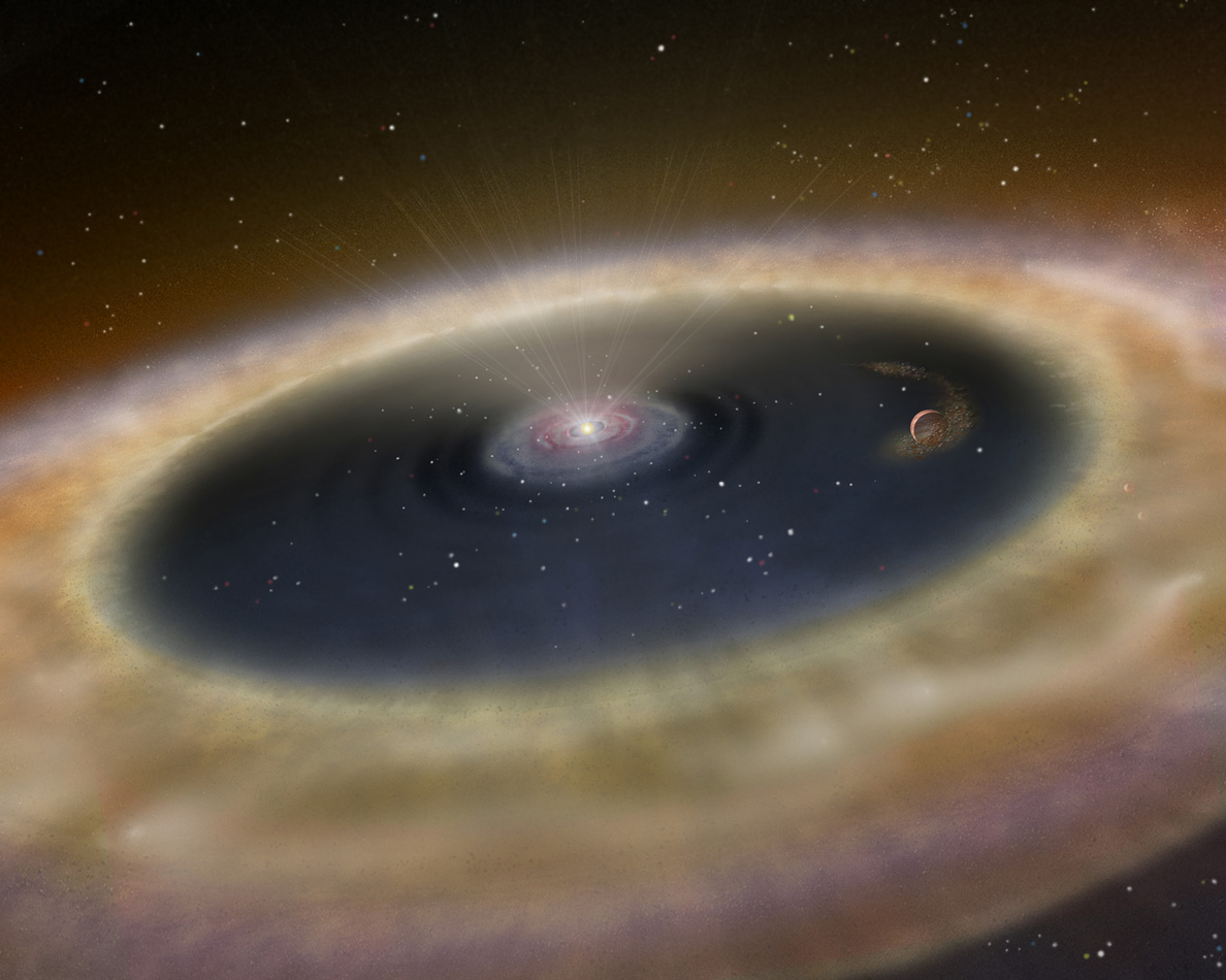 Artistic Impression of LKCa 15 b